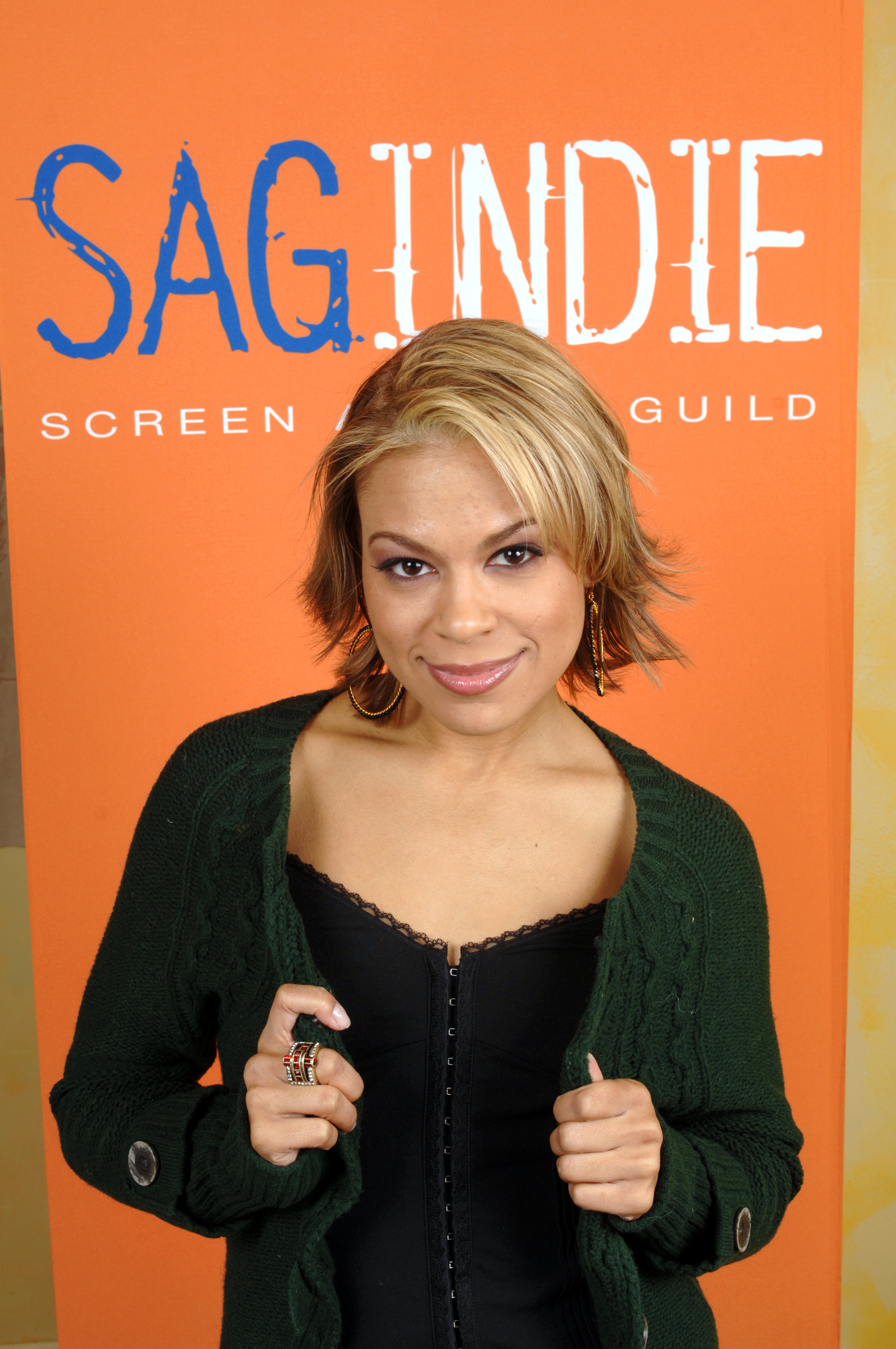 Toni Trucks at the Sundance Film Festival